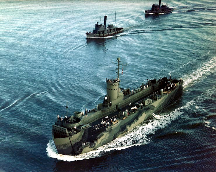 The U.S. Navy medium landing ship USS LSM-152 underway off the Charleston Navy Yard, South Carolina (USA), just after the completion of her construction, circa in the summer of 1944. LSM-152 built at the Charleston Navy Yard and was commissioned on 22 July 1944. It was decommissioned on 17 May 1946 and sold on 2 December 1947. Note Measure 31 camouflage, with its black and green colours, and the two tugs in the background.